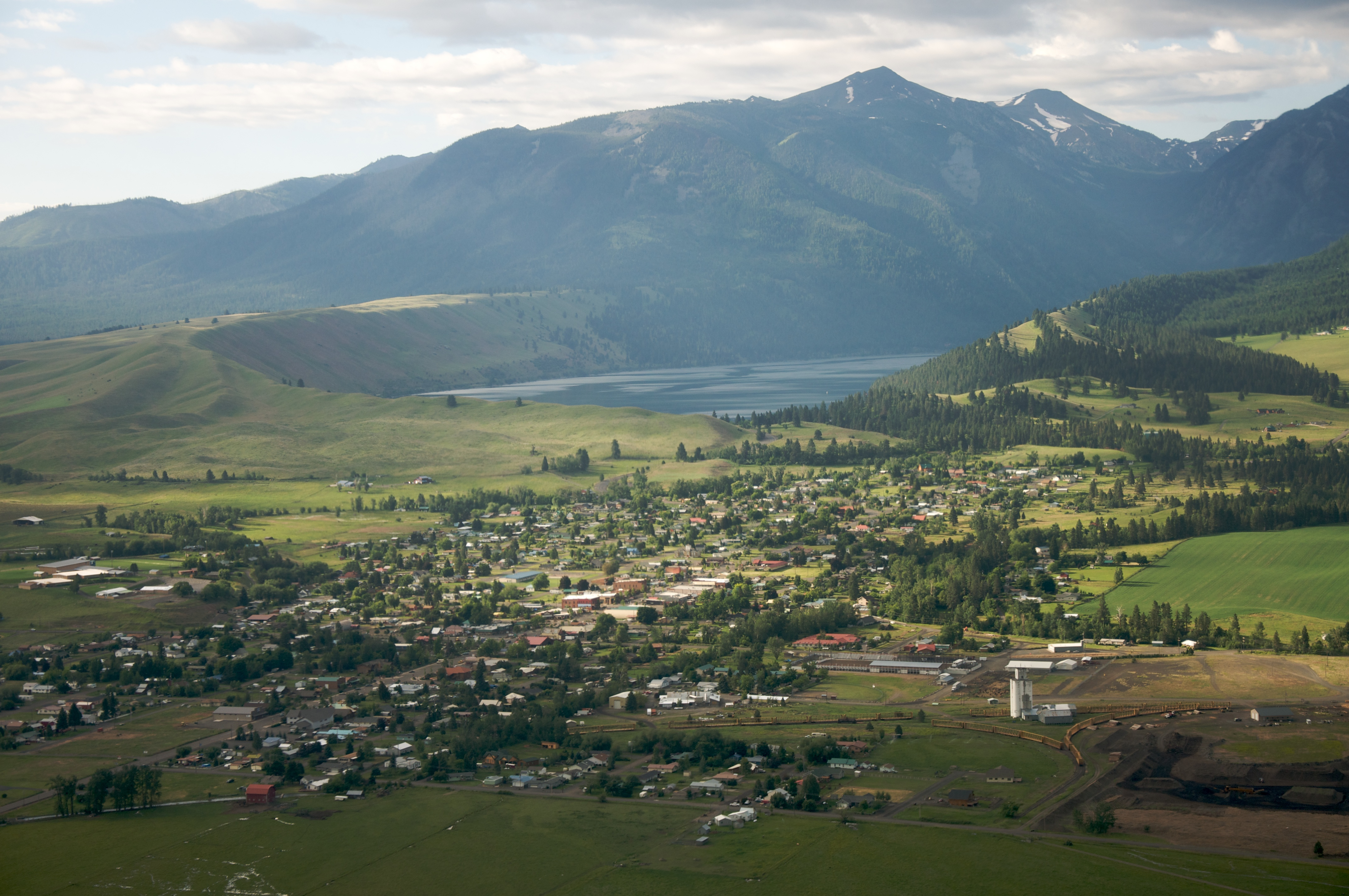 Aerial view of Joseph, Oregon, USA